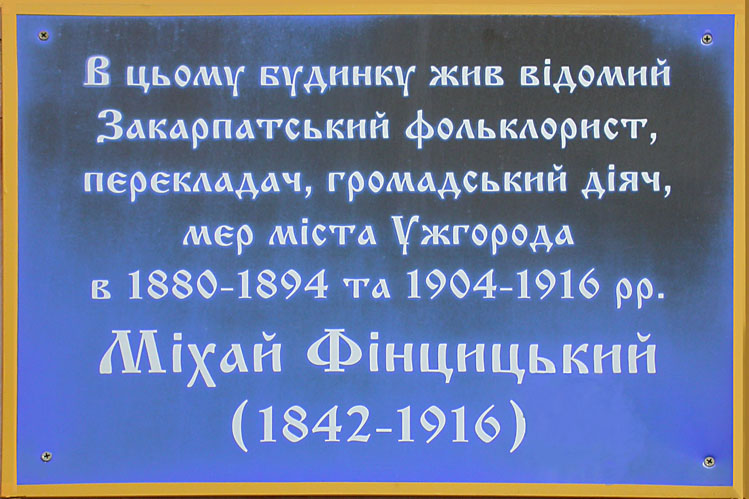 Fincicky's memorial tablet